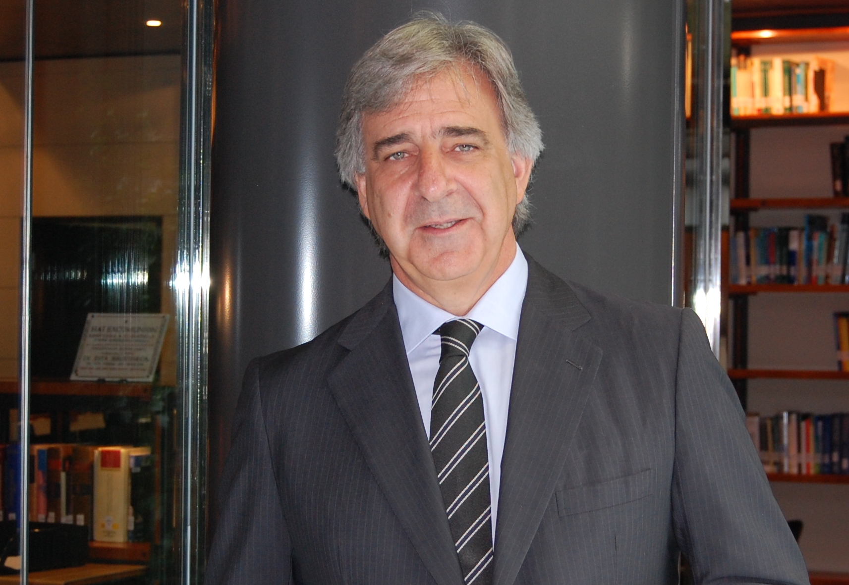 Picture of Emilio Cuatrecasas